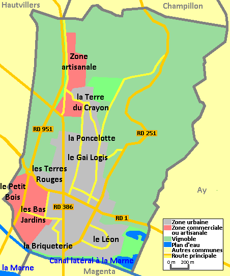 Map of Dizy.